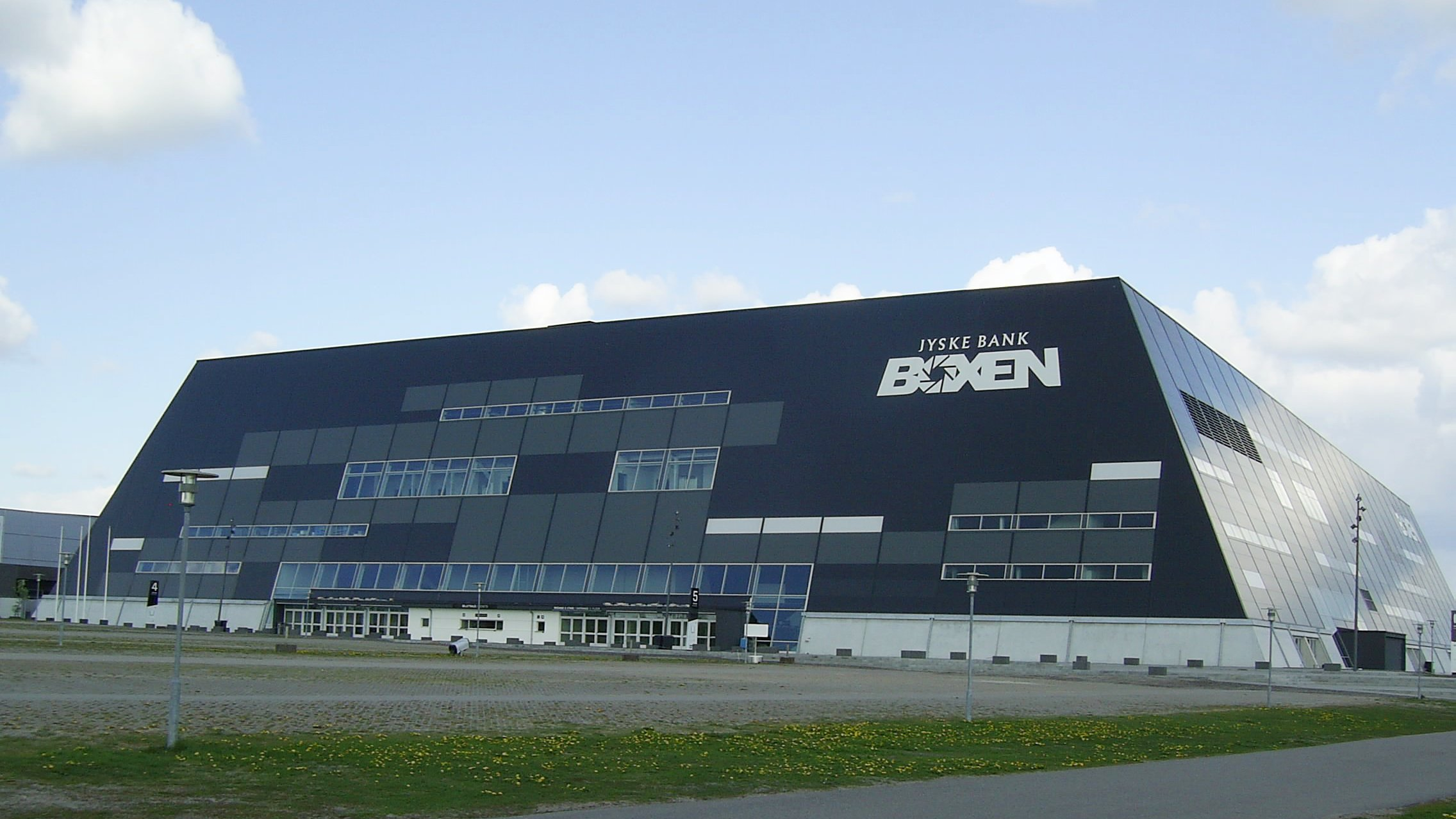 Jyske Bank Boxen near Messecenter Herning